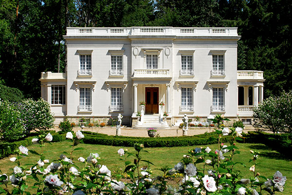 Chateau de la Huardiere, castel on Loire rivers shore, France, Angela Craciun's private property.